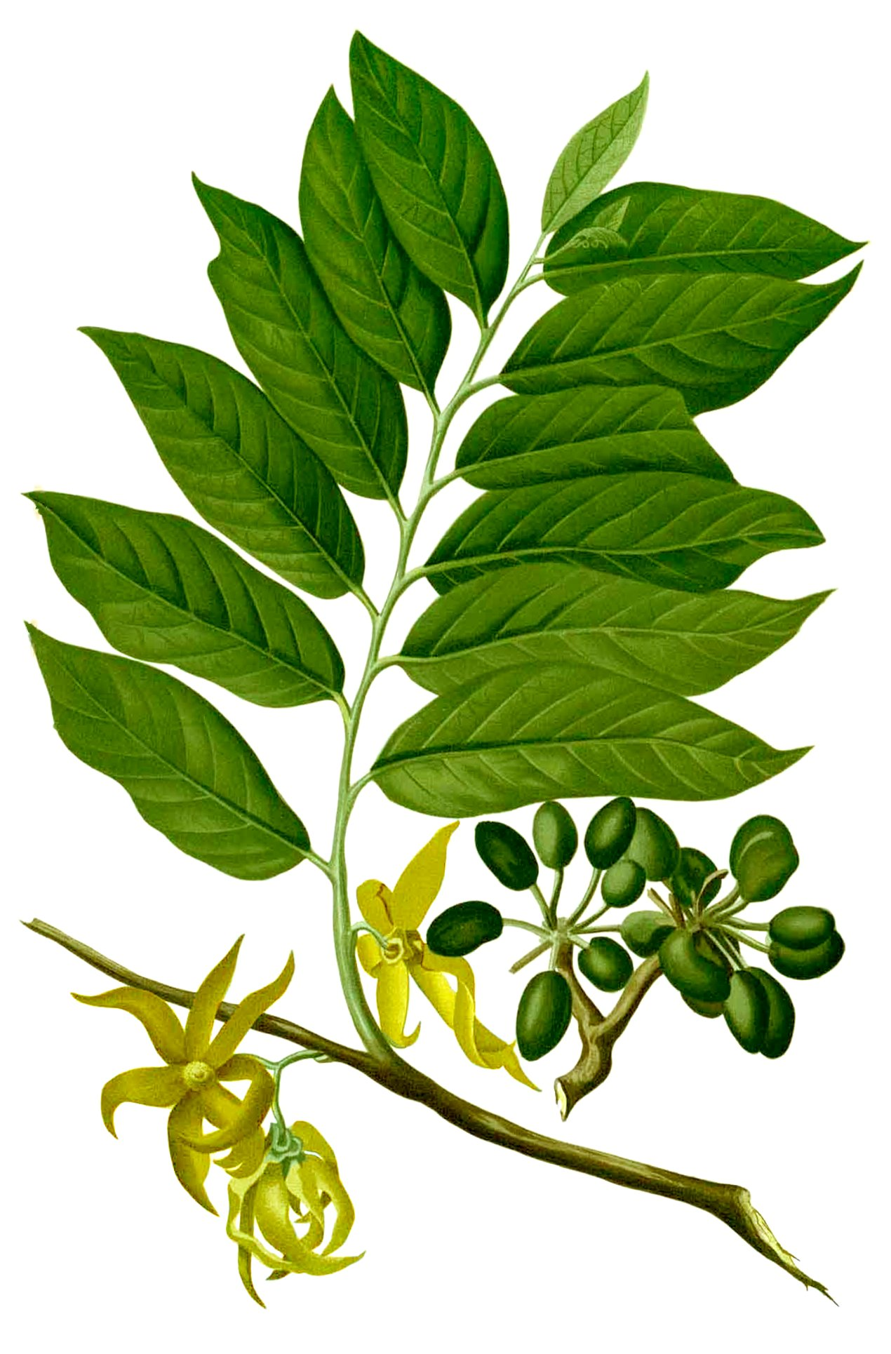 Plate from book